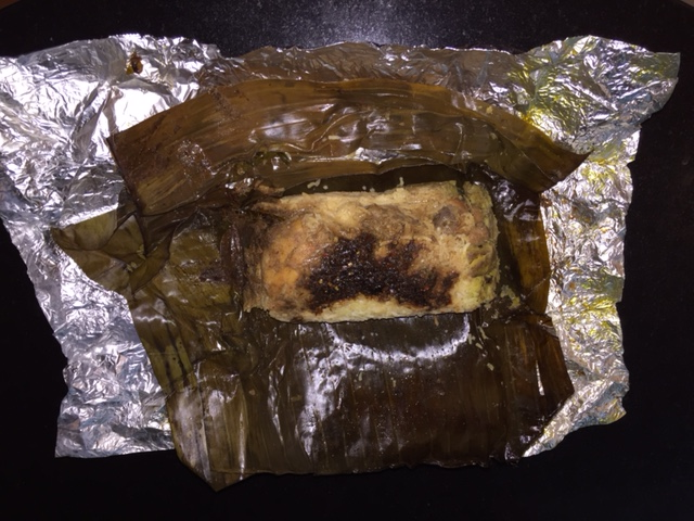 Lamprais cooked in banana leaf